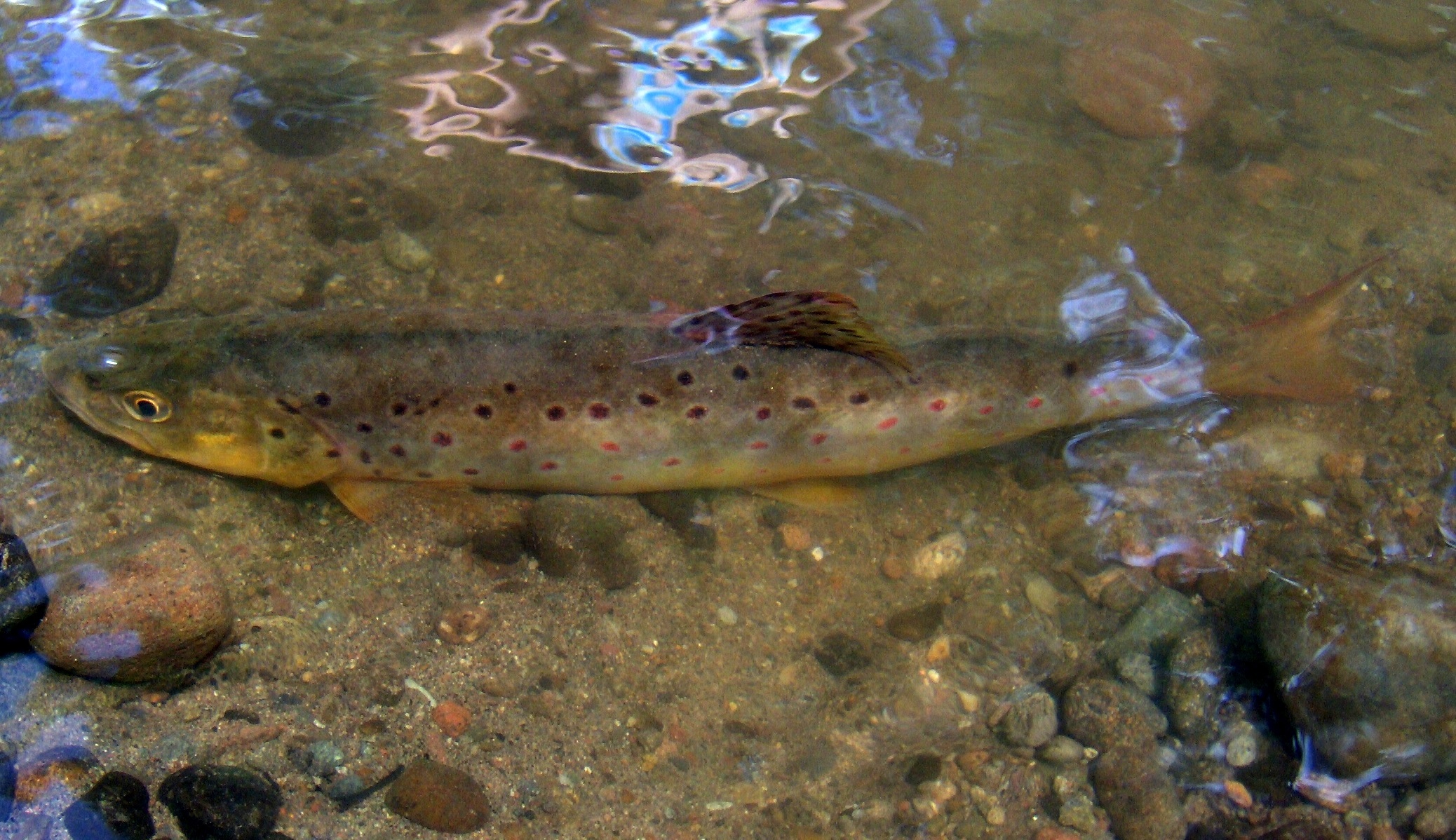 Trout in Slovakia